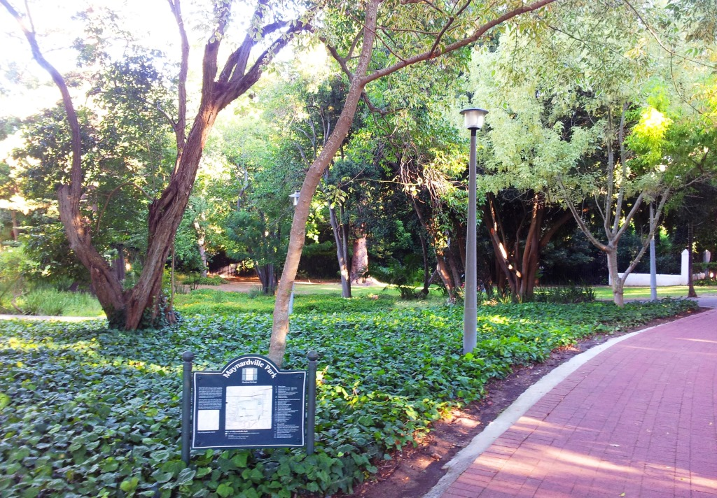 Maynardville Park with the beginnings of the Open Air Theatre visible in the distance